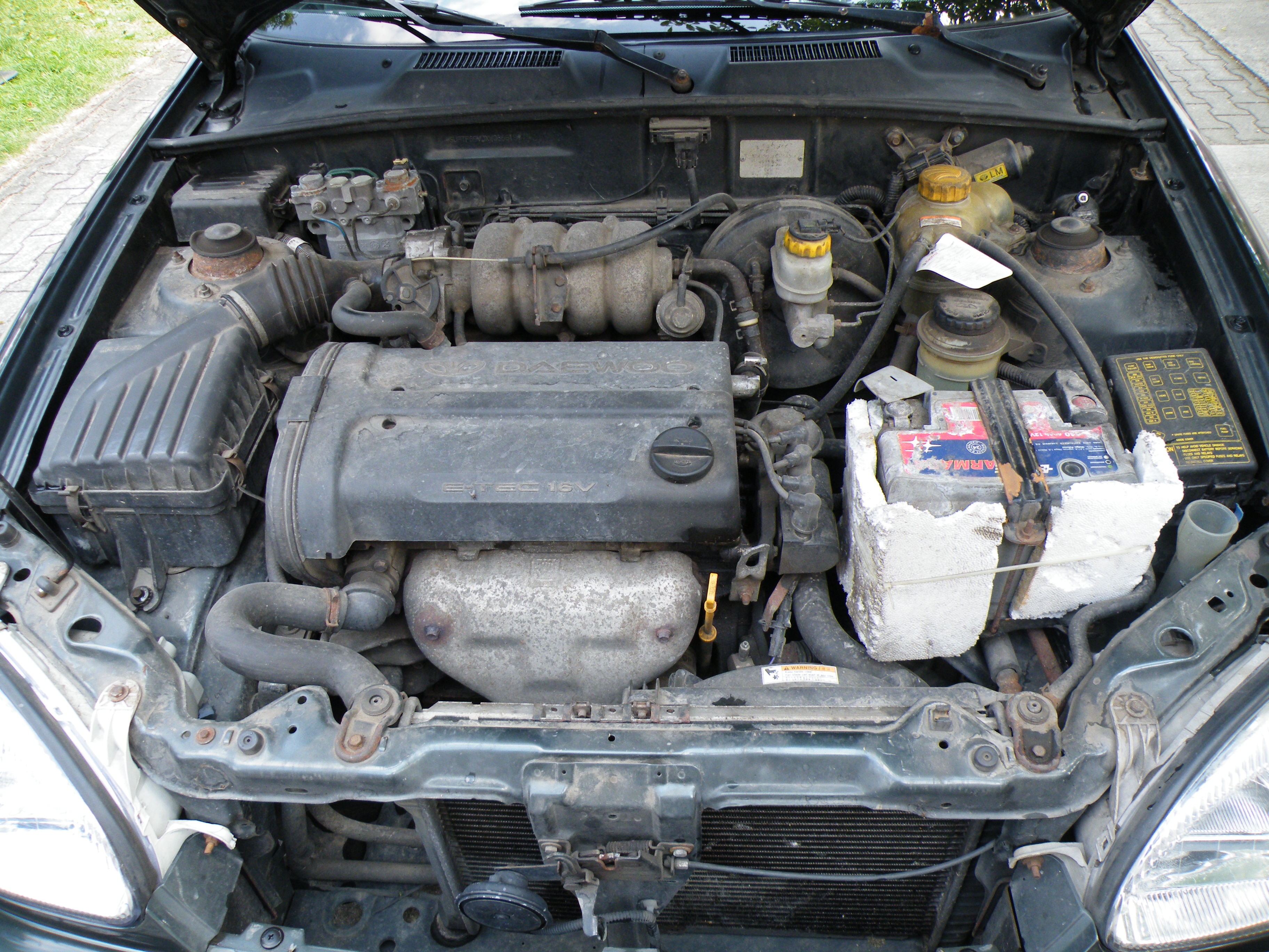 General Motors E-TEC A15DMS 1.5L 16V DOHC engine in Daewoo Lanos car